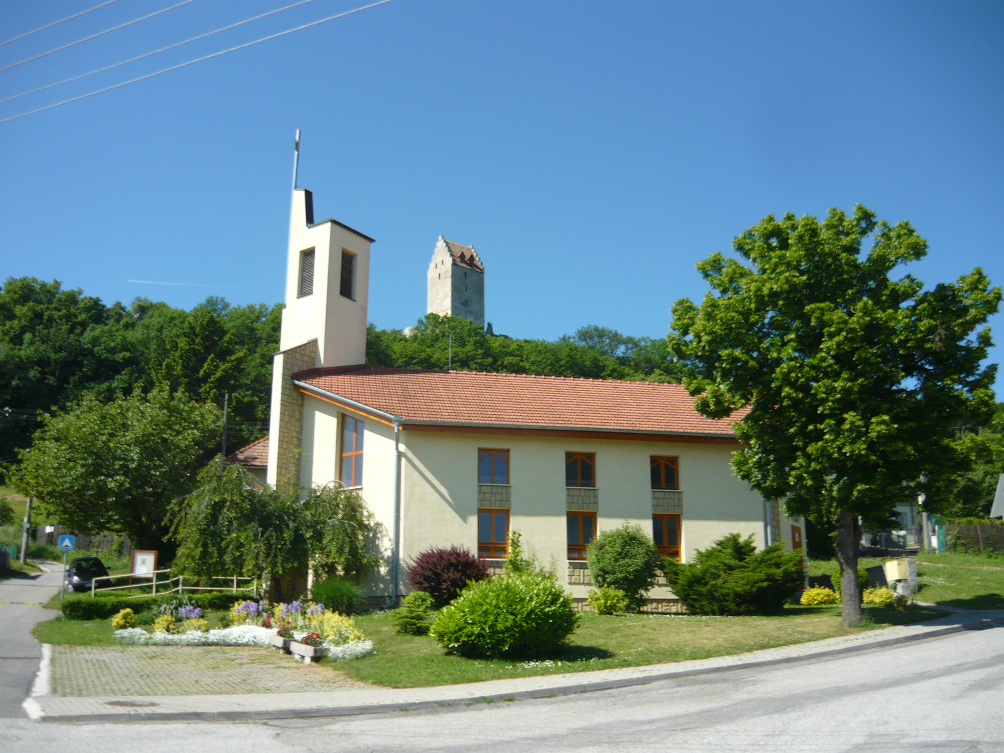 Church of the Virgin Mary The Queen in Podhradie, Topoľčany district, Slovakia. The Topoľčany castle is visible in the background.